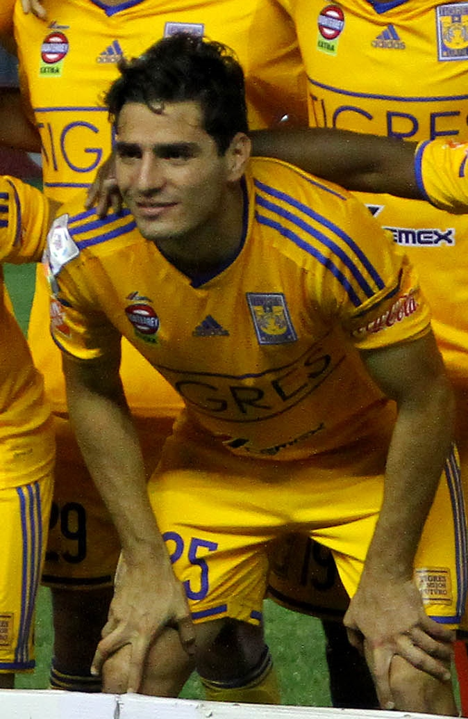 Manta, 19 de may (Andes).-El equipo Tigres de México se enfrenta a Emelec en el partido de ida por los cuartos de finales de la Copa Libertadores, en el estadio Jockay de la ciudad de Manta, ManabíFotos:César Muñoz/Andes Antonio Briseño